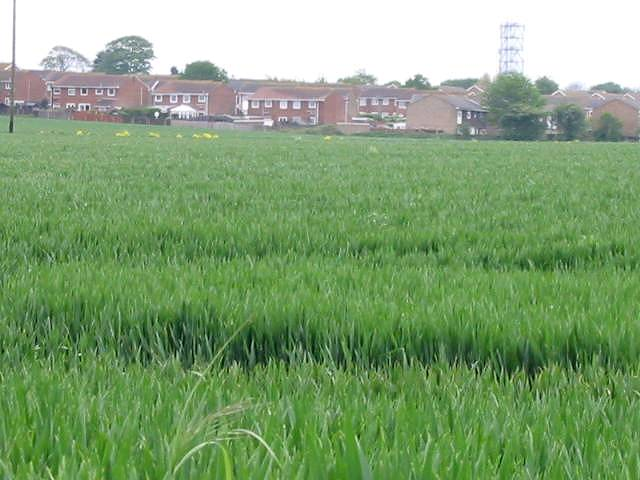 Whitfield from Church Whitfield Road